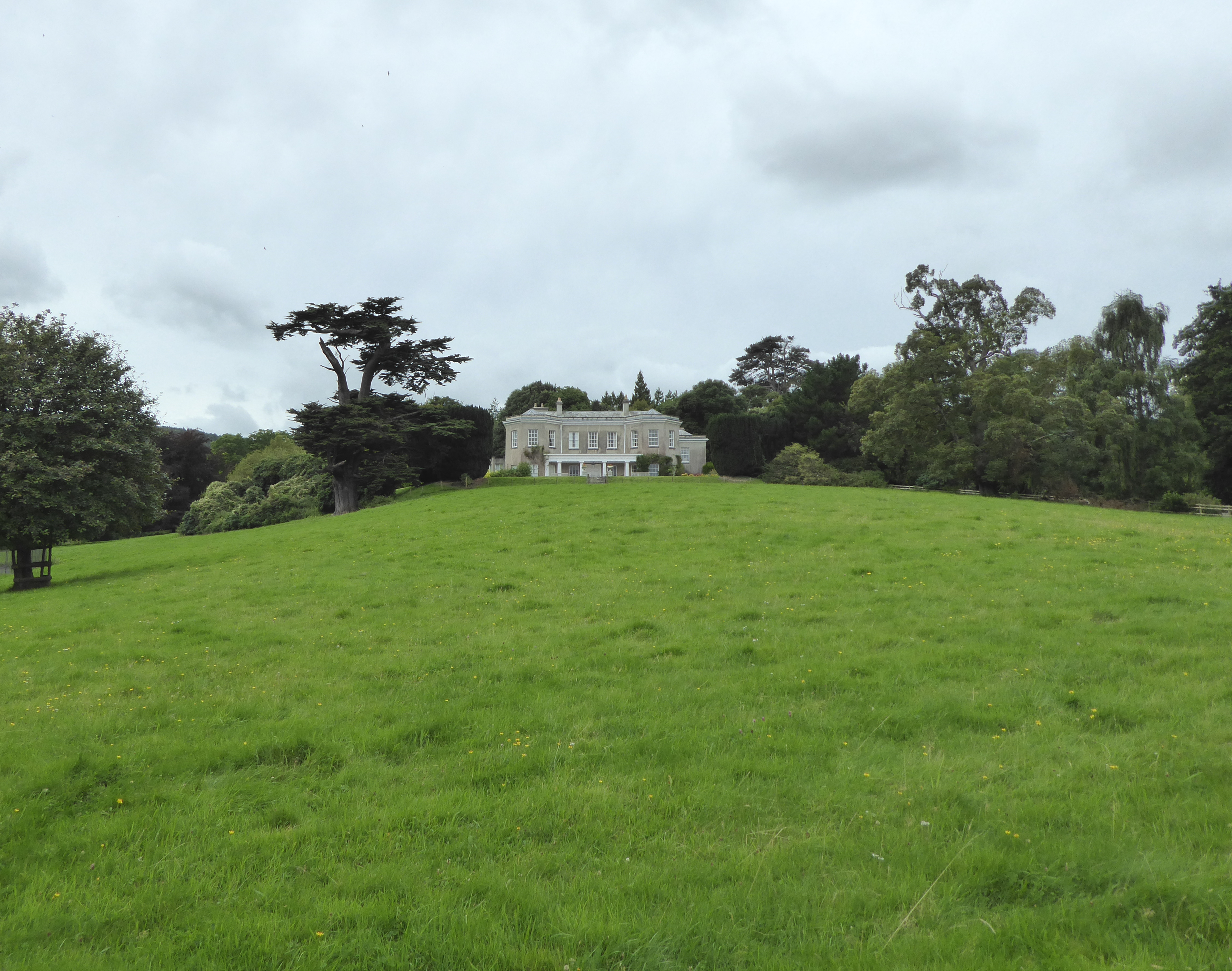 Oxton House in the parish of Kenton, Devon, panorama viewed from east. Built by Rev. John Swete (d.1821), a connoisseur of landscape gardening and of the picturesque.